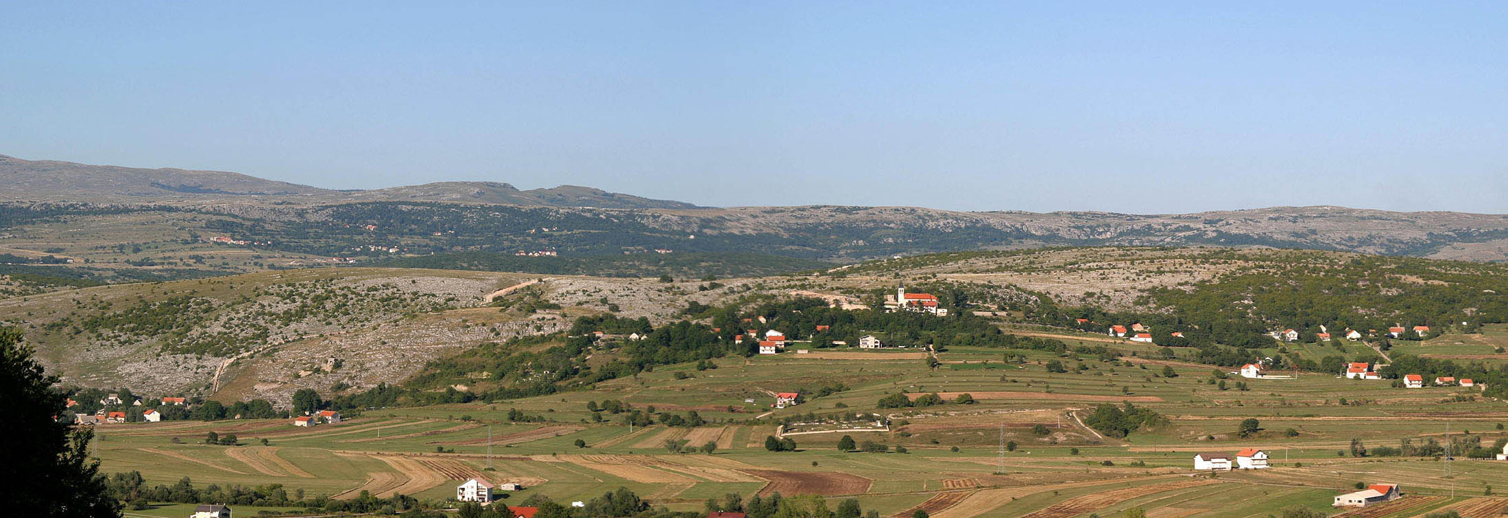 Vidoši, Livno